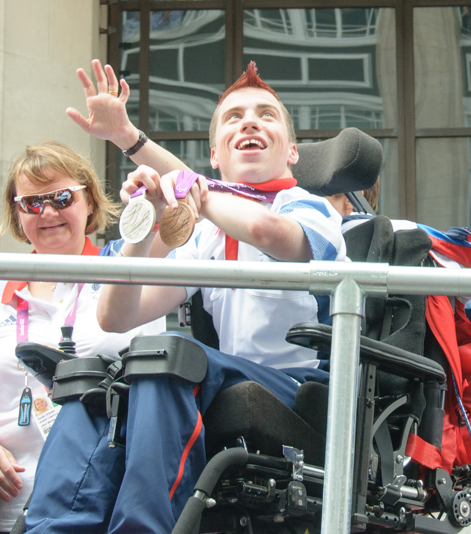 David Smith and his Boccia medals